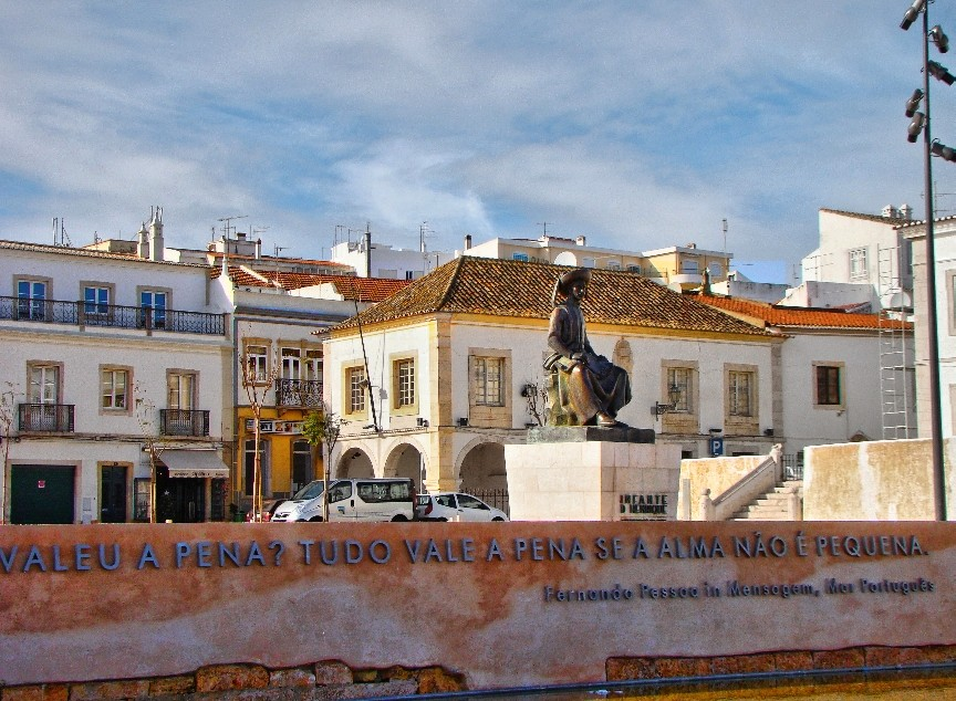 A Mensagem. Fernando Pessoa